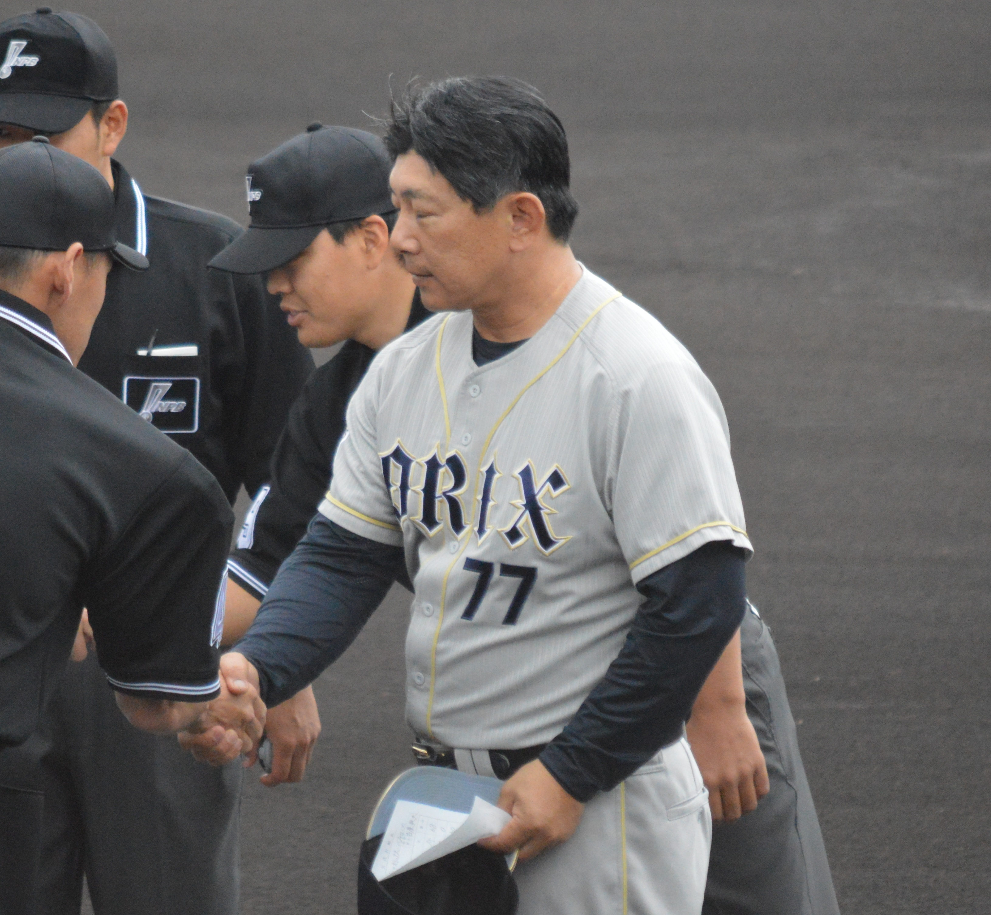 Tetsuji Okamoto, manager of the Orix Buffaloes' farm team, at Hanshin Naruohama Baseball Ground.